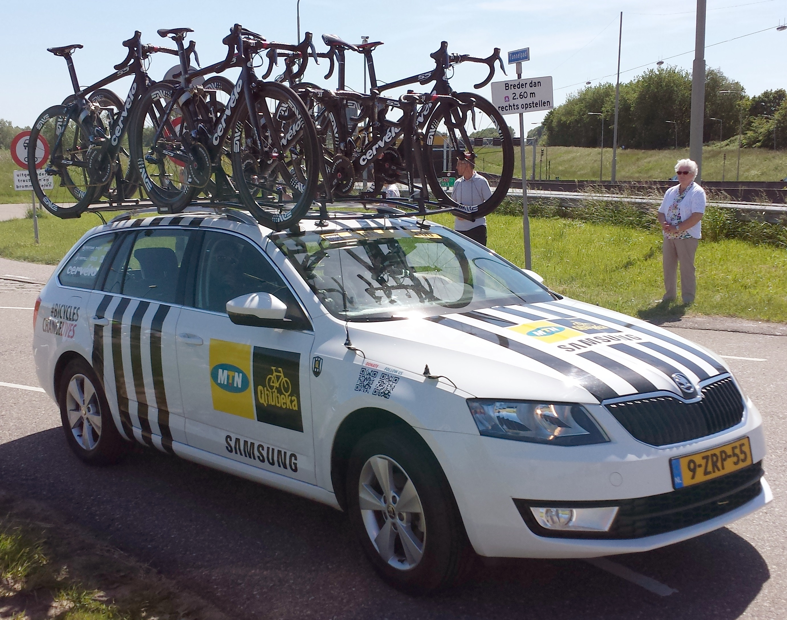 MTN Qhubeka car at the World Ports Classic 2015